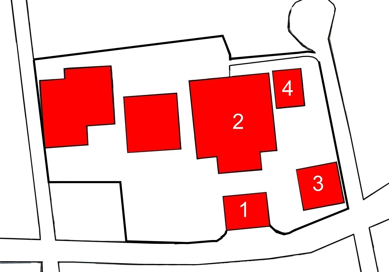 Layout of Kanon Temple at Tokushima